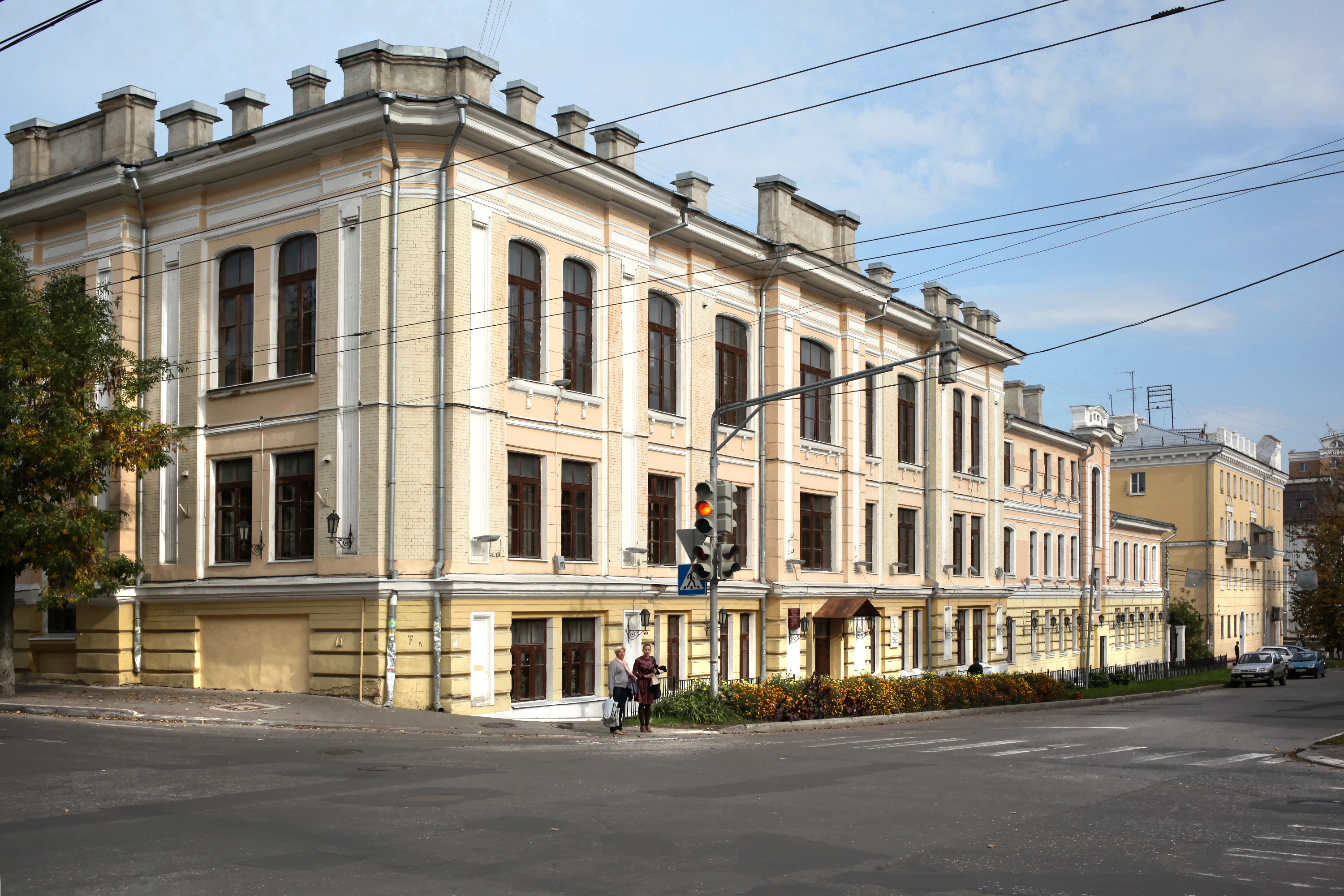 School no. 3 in downtown Kaluga, former teaching college